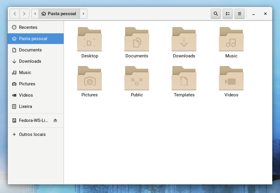 A screenshot of GNOME Files, also known as Nautilus, using Fedora 26 Workstation. The interface is in brazilian portuguese.